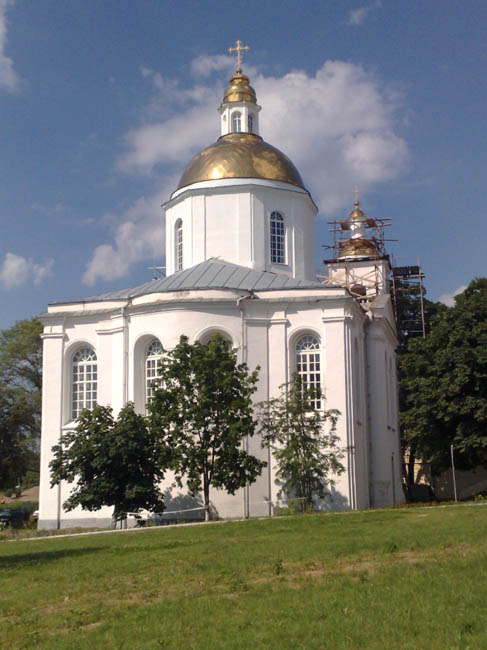 Bogoyavlensky Monastery in Polotsk (Belarus)